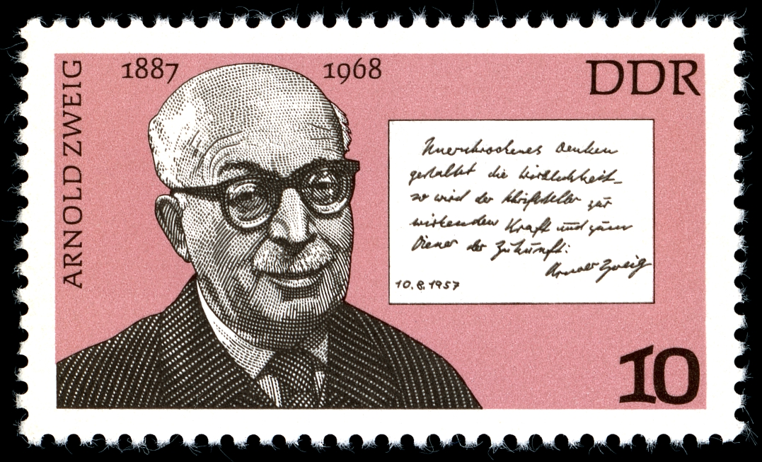 Ausgabepreis: 10 Pfennig First Day of Issue / Erstausgabetag: 8. Februar 1977 Auflage: 15.000.000 Entwurf: Gerhard Stauf Druckverfahren: Offsetdruck Michel-Katalog-Nr: Ländercode-MiNr: 2199 Licensing This file is most likely NOT in the public domain. It has been marked for review, and will be deleted in due course if the review does not find it to be in the public domain. This file was previously considered to be in the public domain as a German stamp; it is possible that it is in the public domain for other reasons, in which case a new rationale will be applied as part of the review process. See below for the previous rationale. Previous public domain rationale, no longer applicable This stamp is in the public domain in Germany because it was released by the postal administration of the German Democratic Republic or the Soviet occupation zone (Deutschen Post der DDR) whose legal successor is the Federal Republic of Germany. Thus it is an official work according to German copyright law (§ 5 Abs. 1 UrhG).